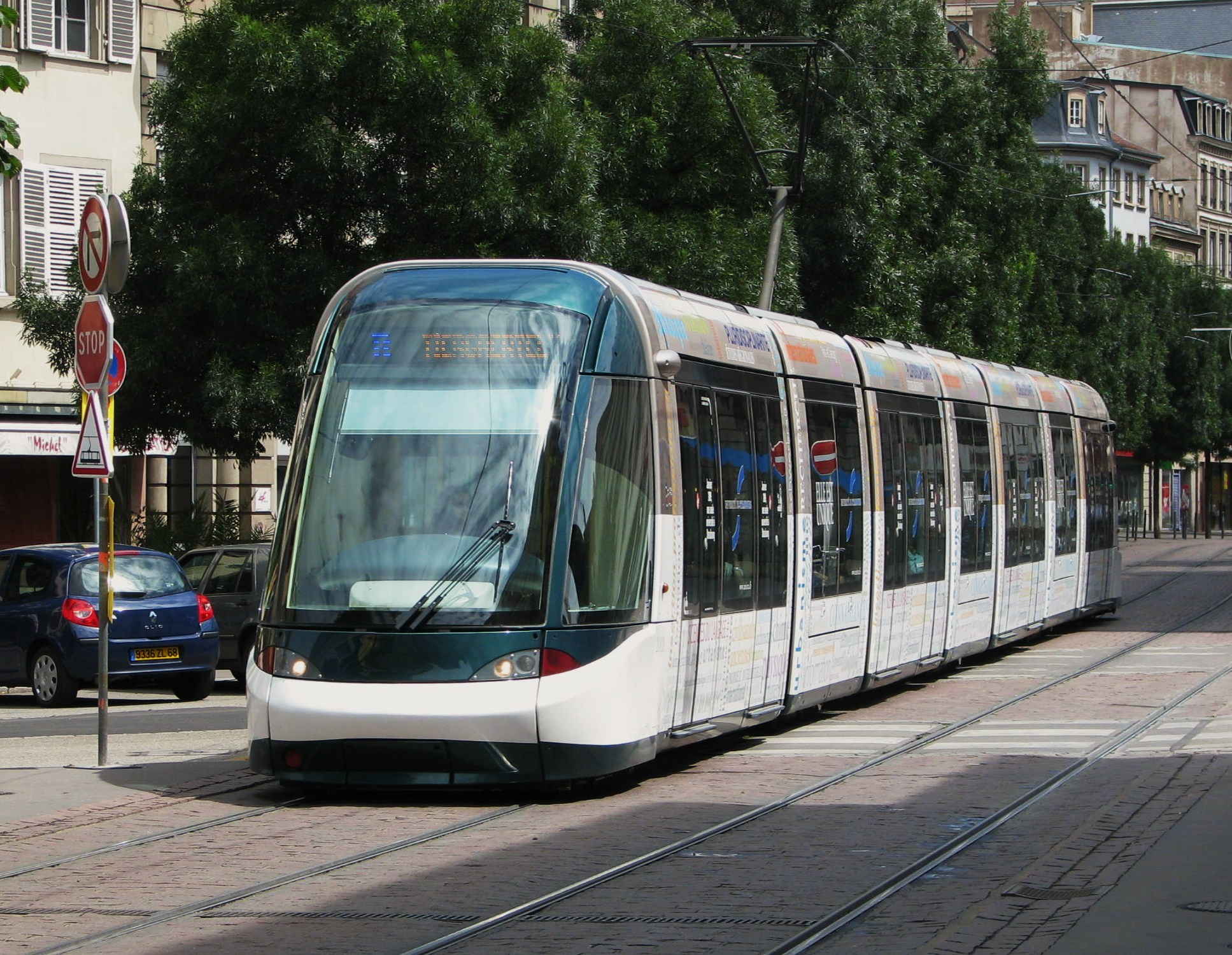 Tramways in Strasbourg